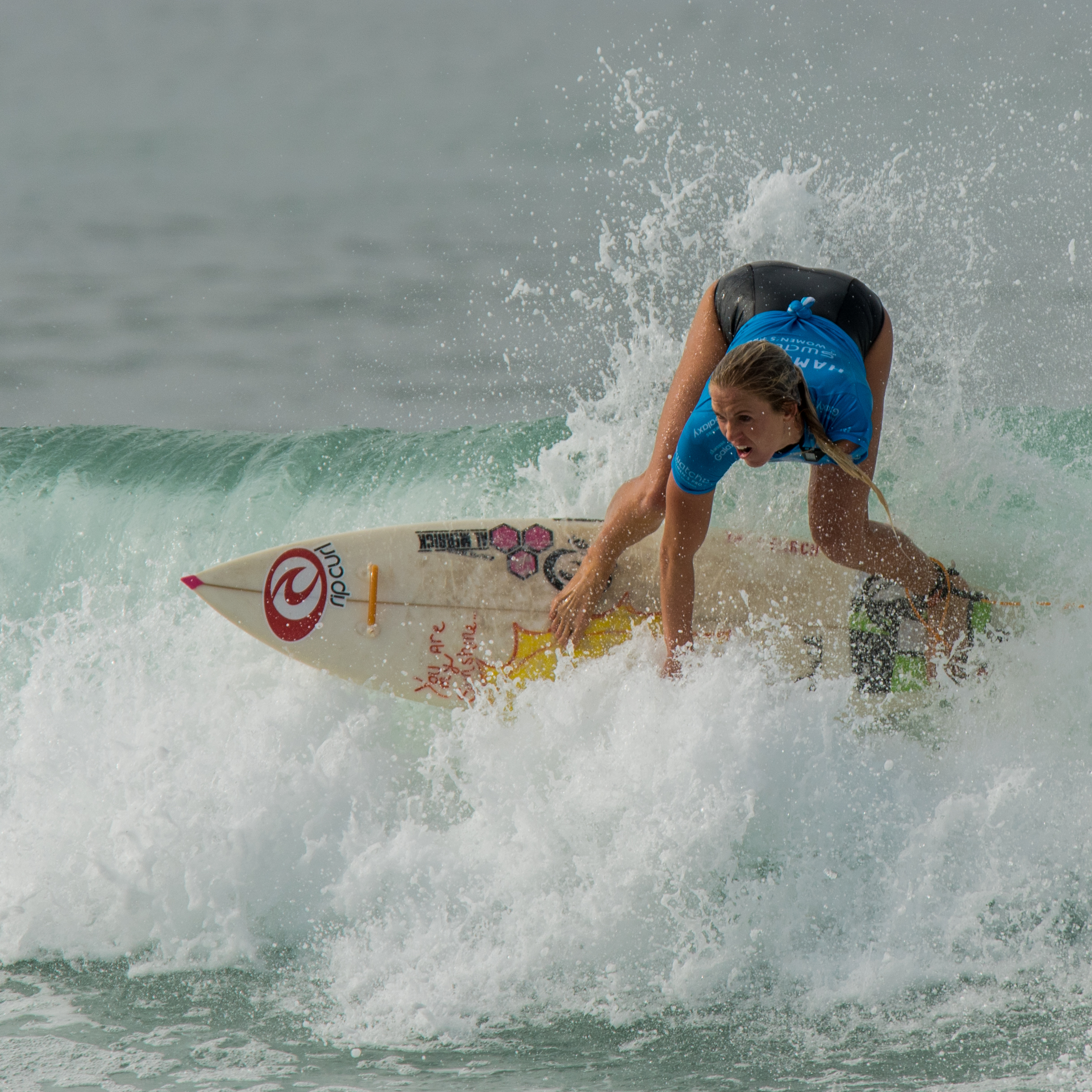 Bethany Hamilton surfing